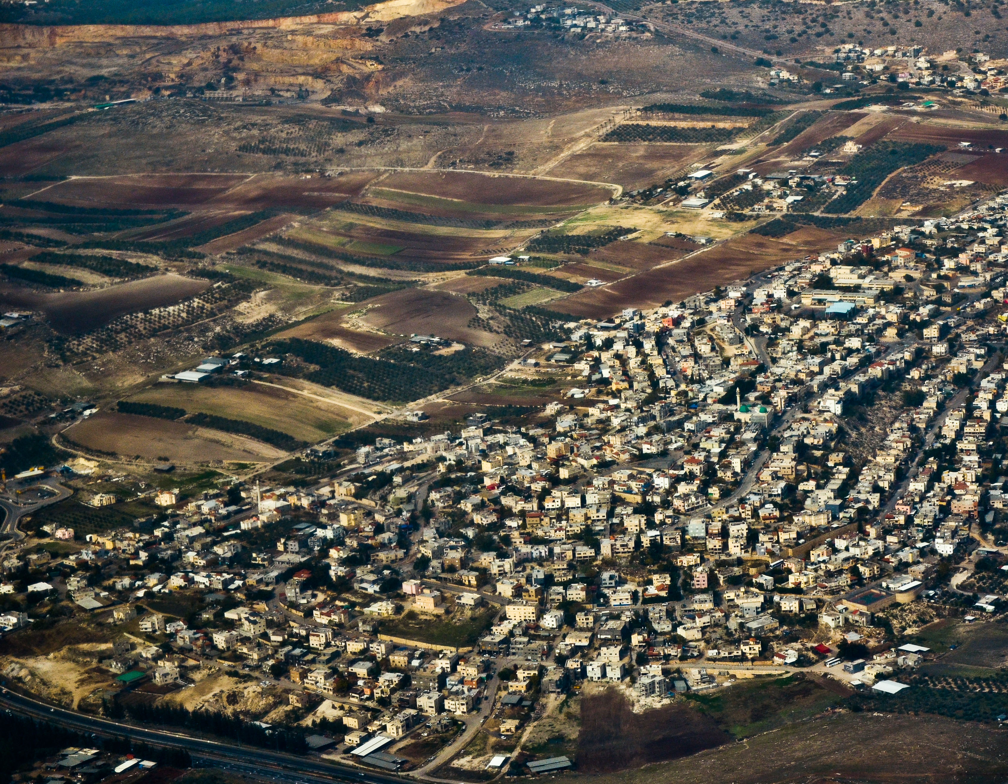 Shot from plane flown by Ilan maytal